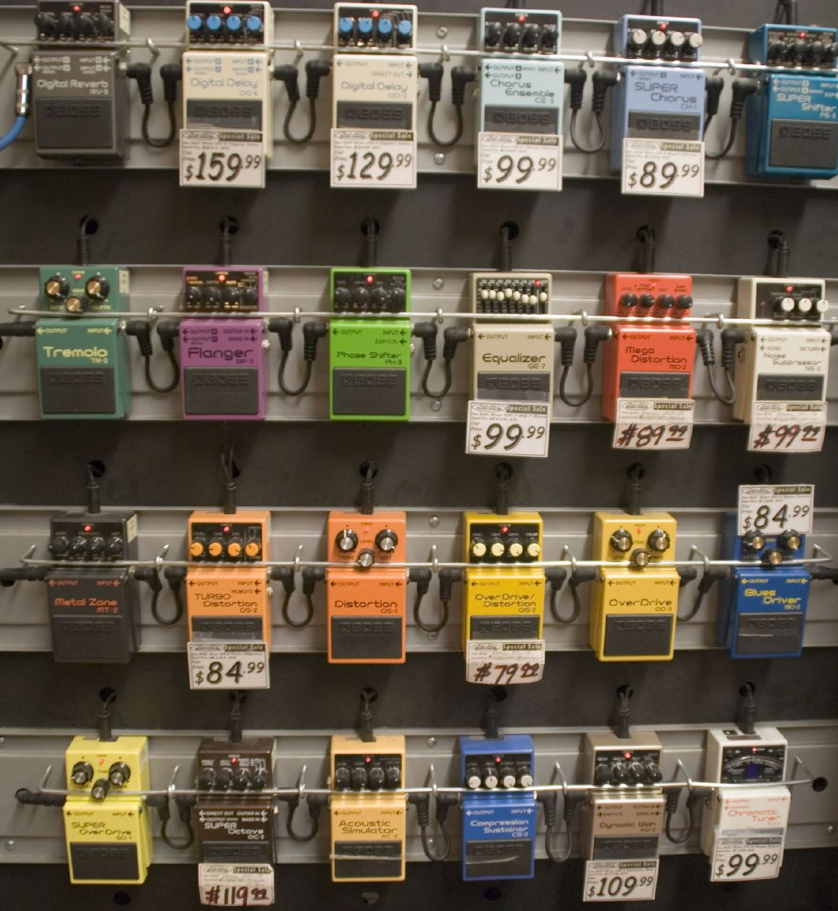 BOSS guitar pedals, Haight Ashbury Music Center, San Francisco